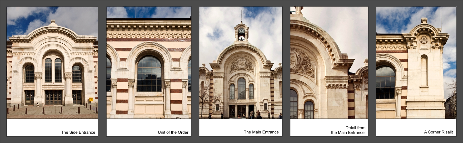 Central Market Hall, Sofia by Architect Naum Torbov